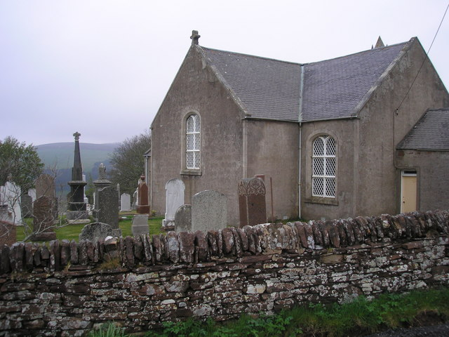 Berriedale Church The view of the former Berriedale Church as seen from the car park. The building was in regular use until the early part of the century but has now reverted to the local estate and is used by the community. The building is still available for occasional services.